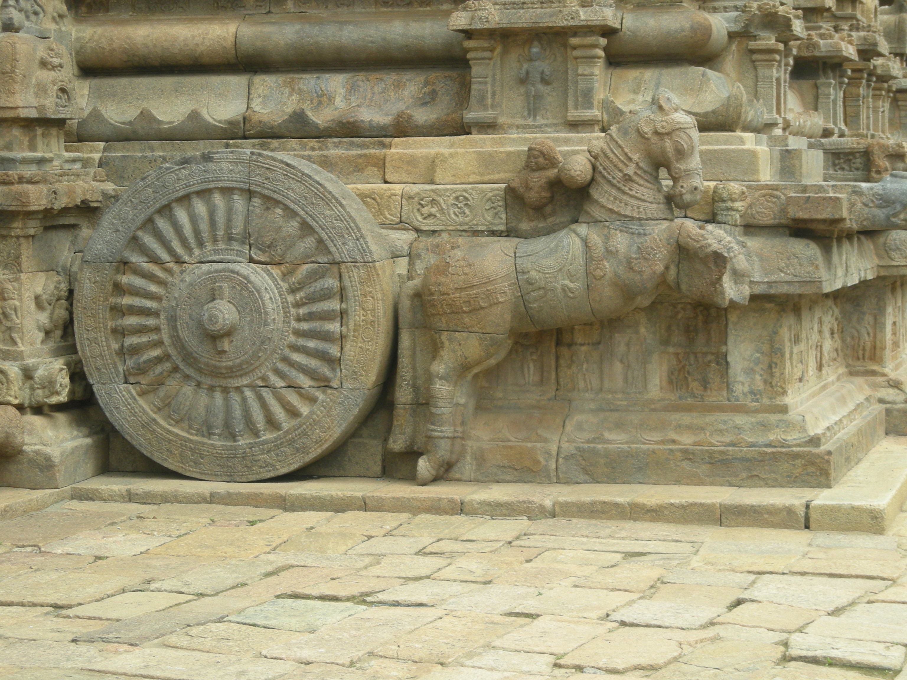 Close view of Stone Chariot in Tharasuram Temple, Kumbakonam, Tamil Nadu